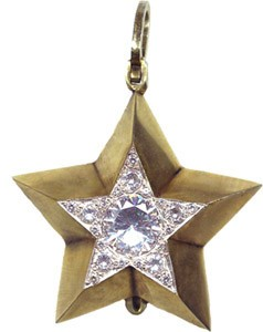 Russian rank insignia, here “Marshal´s – small” (OF9) for: Marshal of the branch and Chief marshal of the branch 1944 – 1974 Admiral of the fleet (Soviet Union)Admiral of the fleet since 1962 and General of the army since 1974.